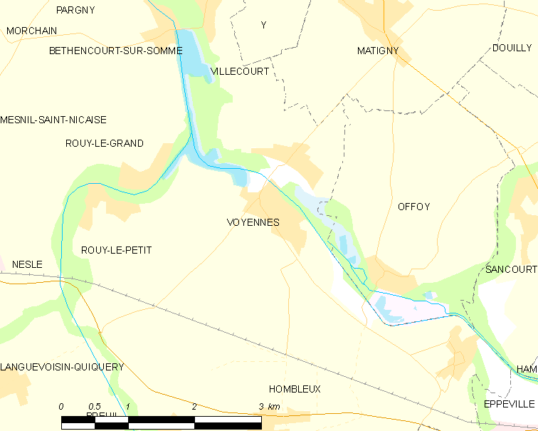 Map of French municipality Voyennes